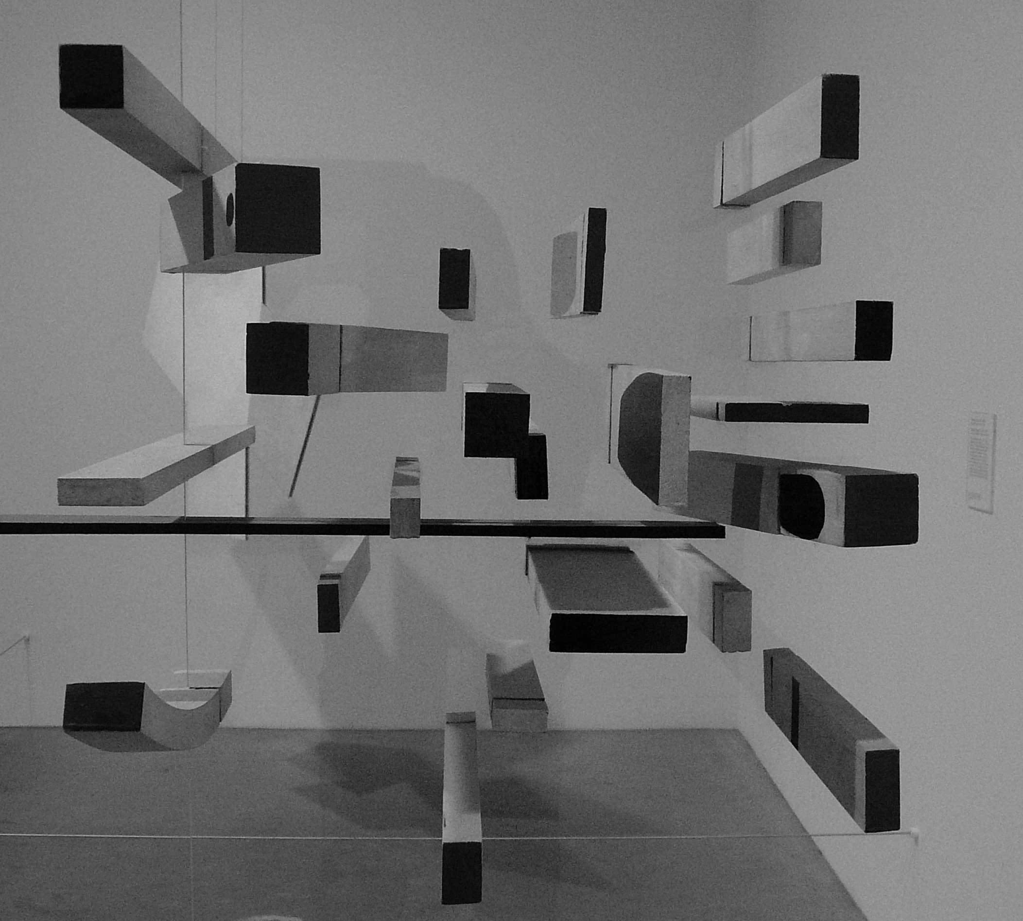 Victor Pasmore: Abstract in White, Green, Black, Blue, Red, Grey and Pink